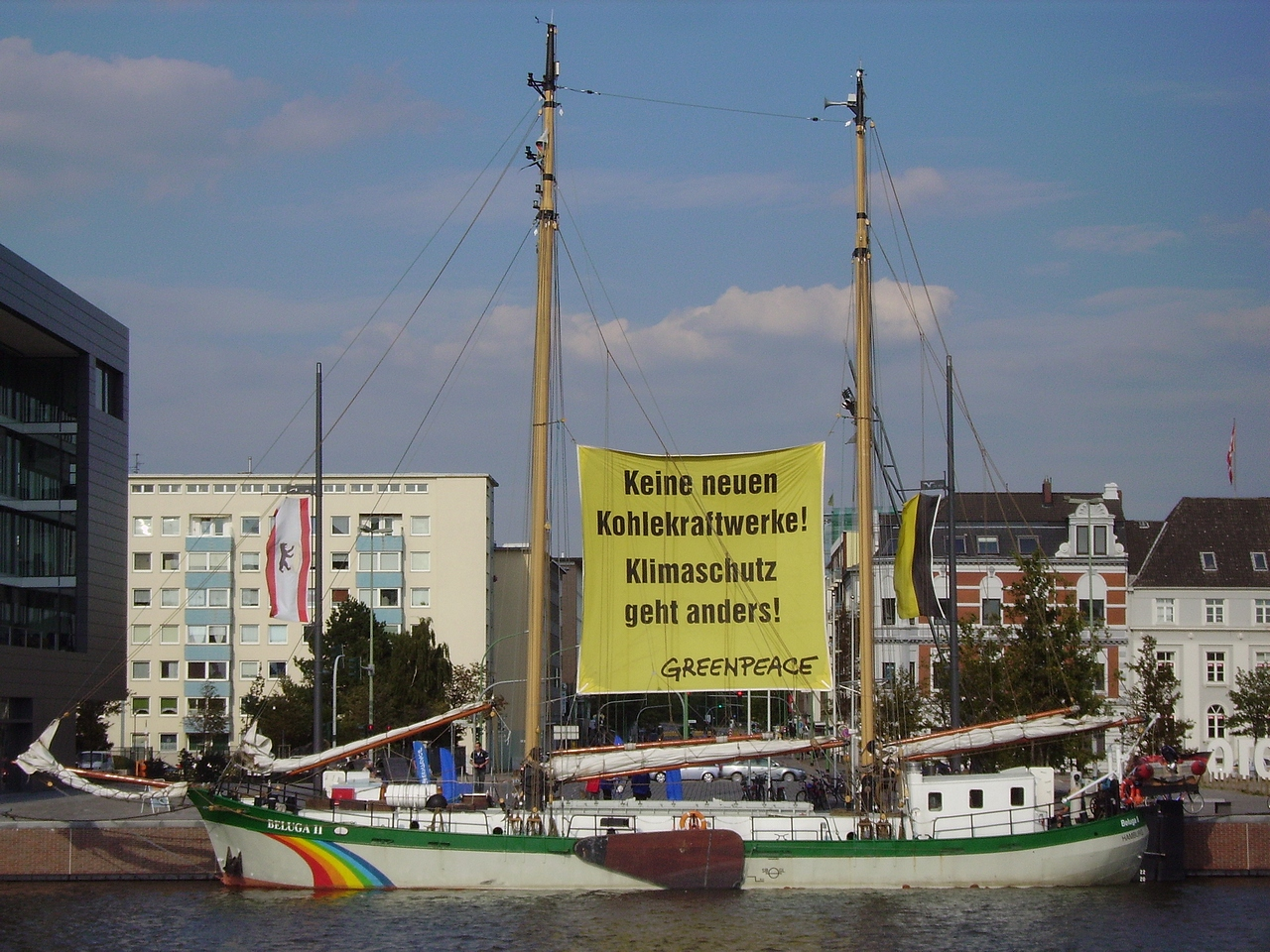 The clipper "Beluga II" of Greenpeace